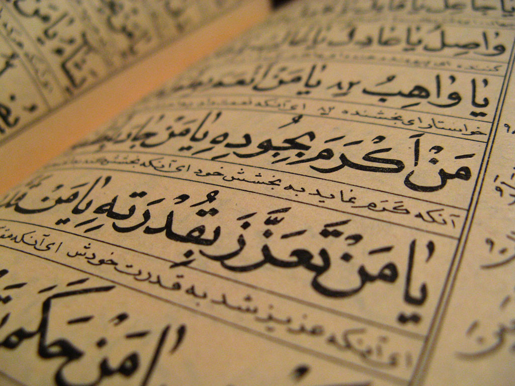 arabic writing